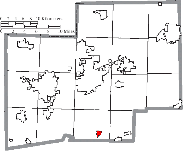 Map of the municipal and township boundaries of Stark County, Ohio, United States, as of the 2000 census, with the location of the village of East Sparta highlighted. Township borders are shown only in unincorporated areas in order to differentiate incorporated and unincorporated areas more clearly.